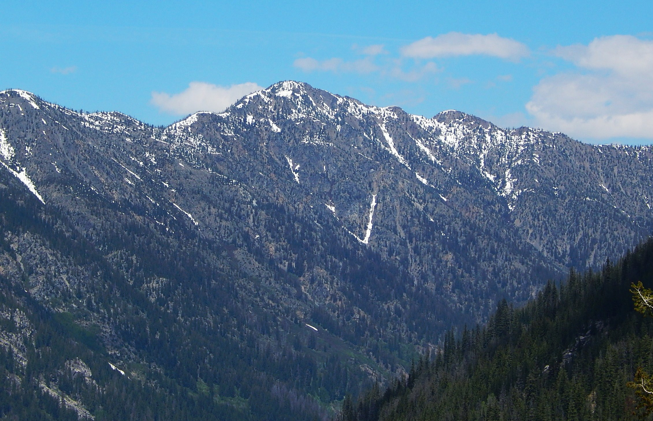 Delancy Ridge with Peak 7228 centered. Seen from the North Cascades Highway.